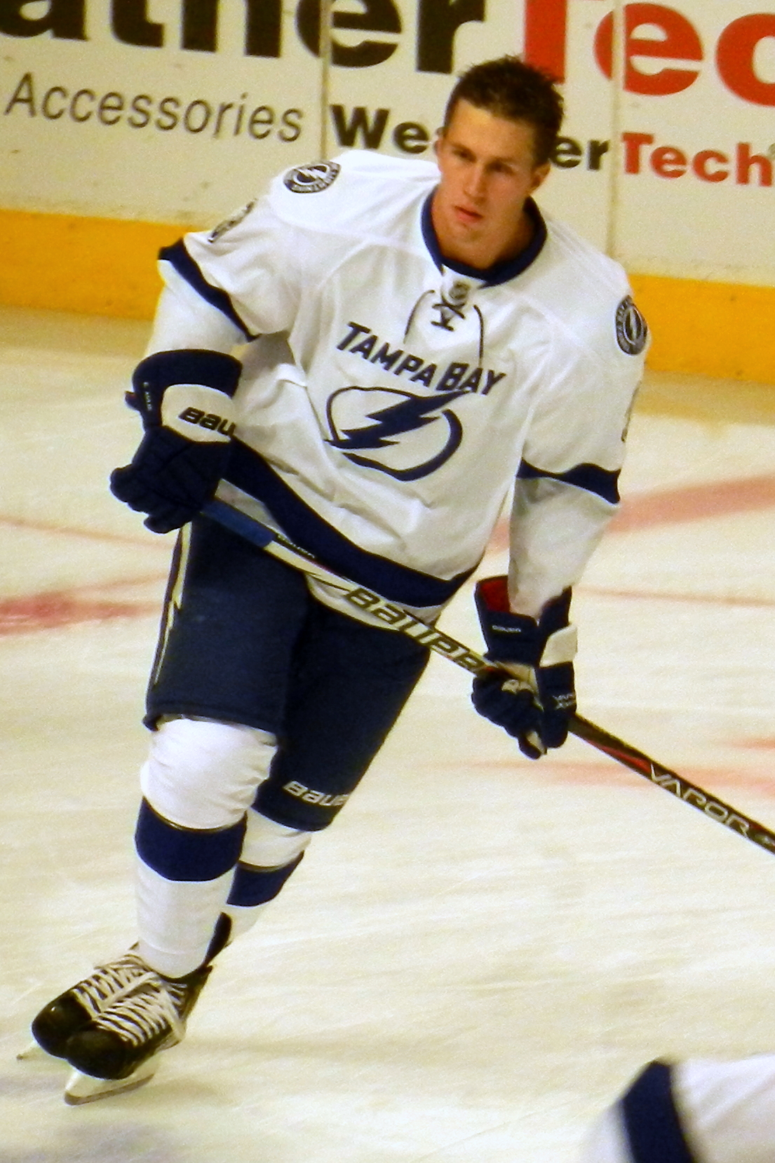 Keith Aulie with the Tampa Bay Lightning during warm-up before a gamve vs. the Blackhawks at the United Center in Chicago